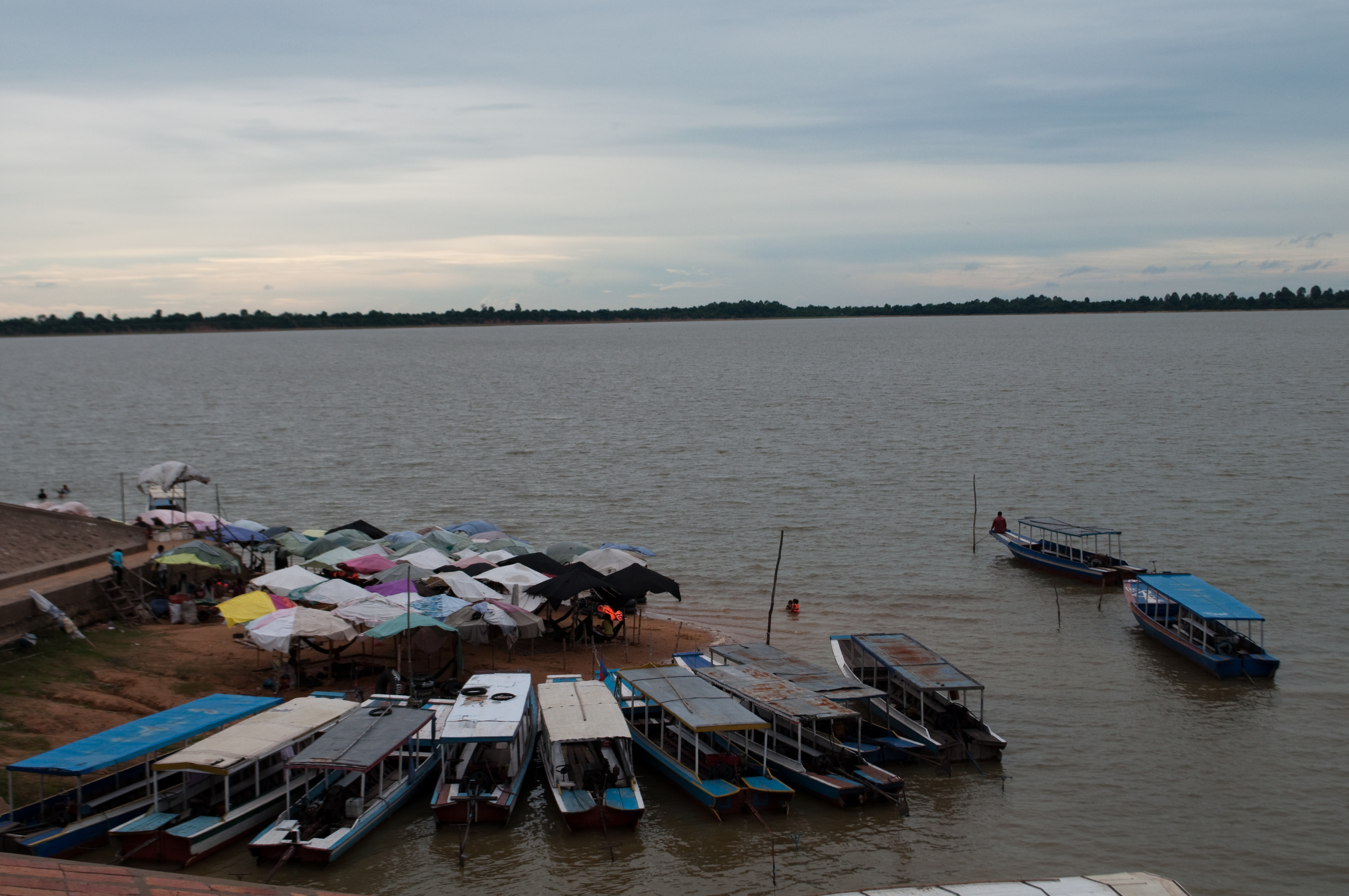 Beach at the West Baray